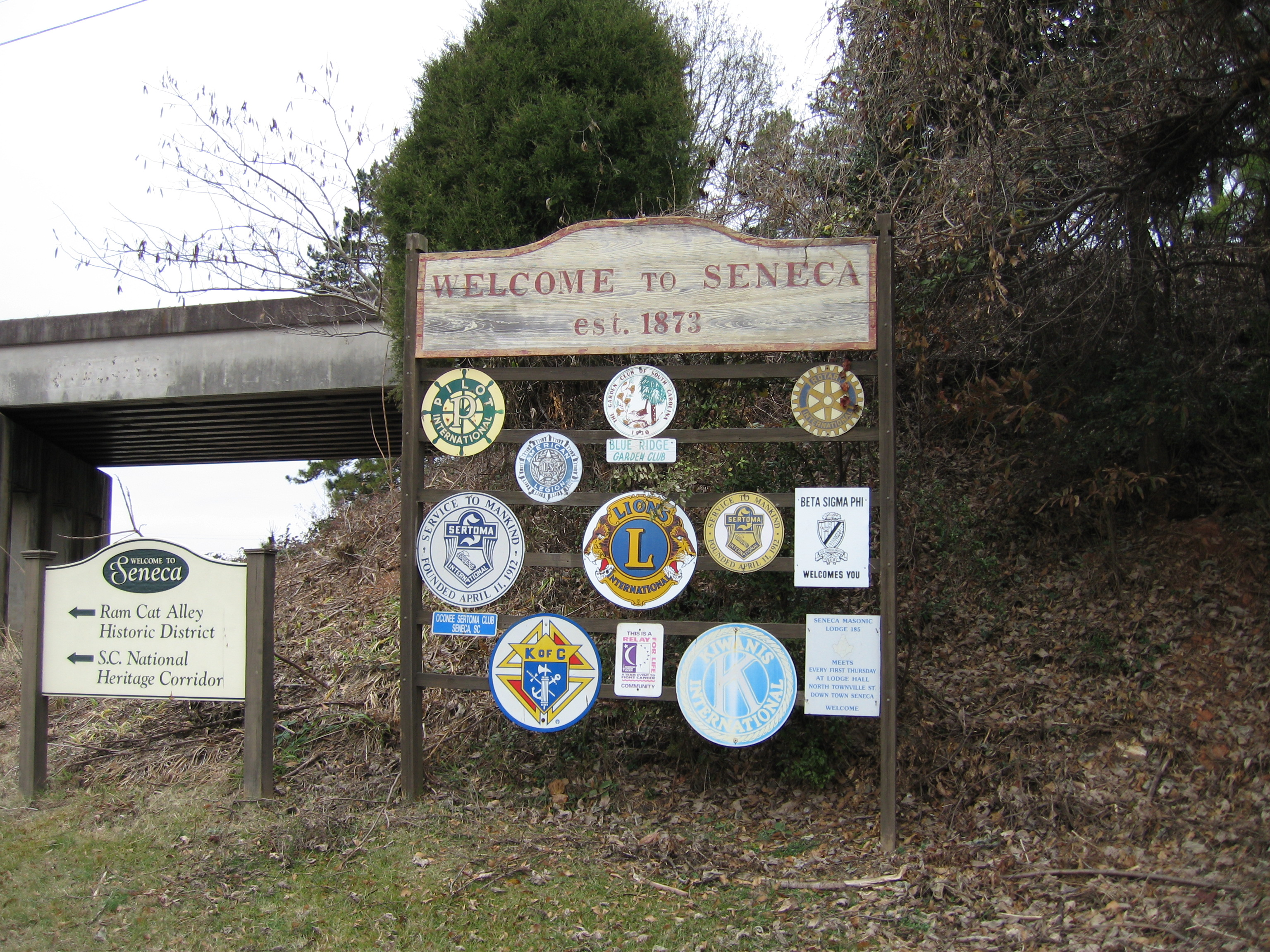 Seneca, SC welcome sign on Highway 123.